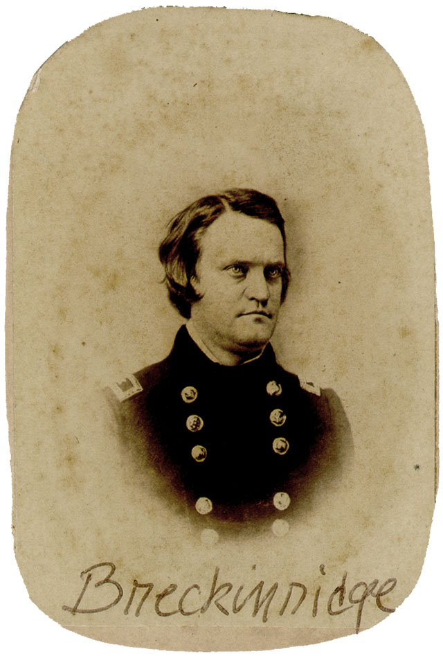 Confederate Major General John Cabell Breckinridge